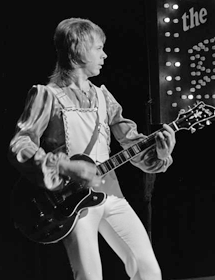 Björn Ulvaeus, Anni-Frid Lyngstad, and Agnetha Fältskog at the Eddy Go Round Show.